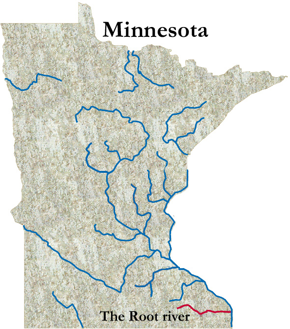 Map of the root river created by self, PhotoShop 7.0